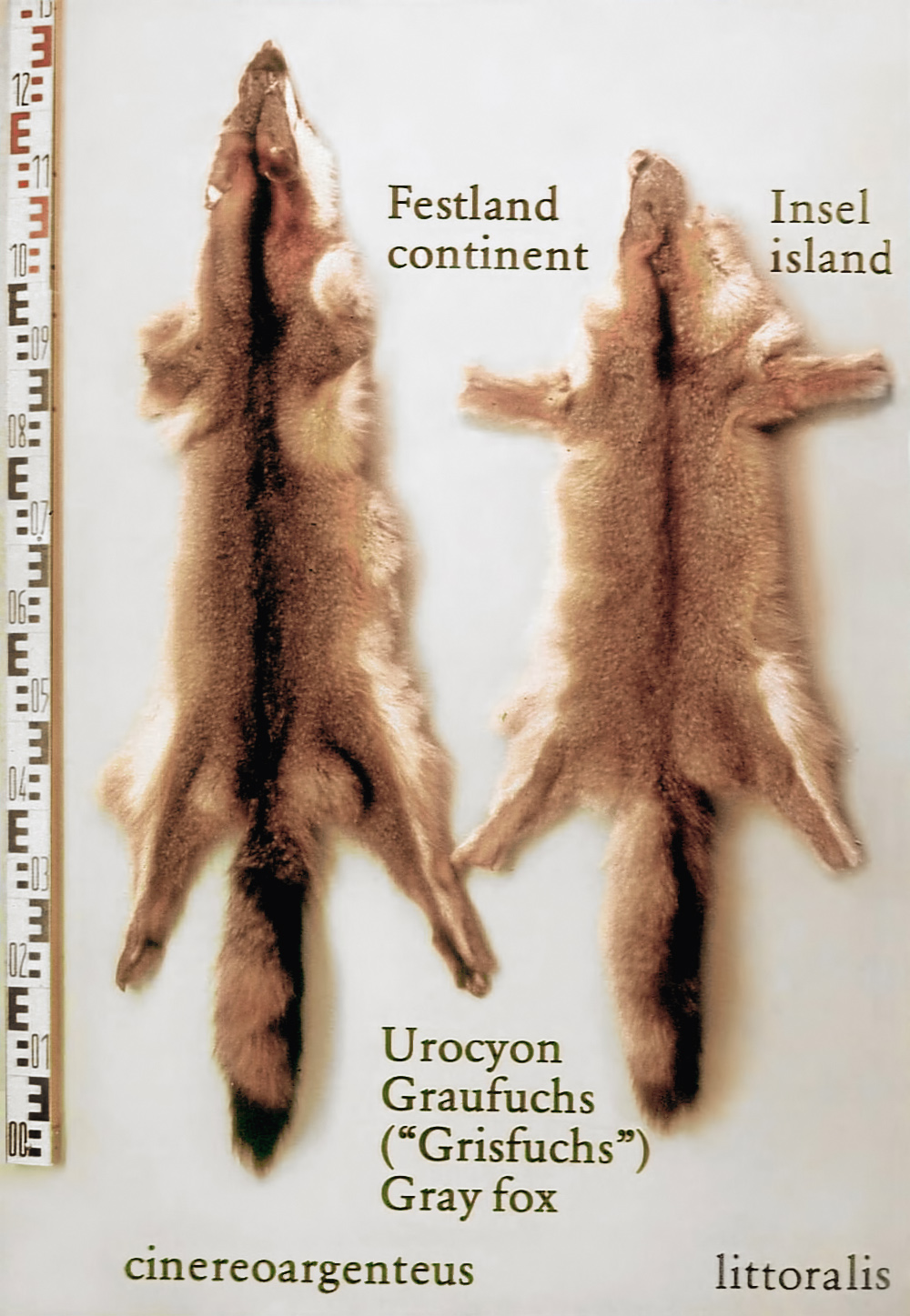 Continent and island gray fox fur skins (Urocyon cinereoargenteus and Urocyon littoralis). Fur skin collection, Bundes-Pelzfachschule, Frankfurt/Main, Germany